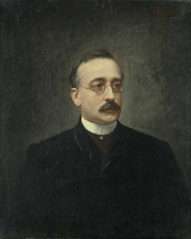 Portrait of August Christian Baumann Bonnevie, lawyer and mayor of Christiania (Oslo) in 1892.